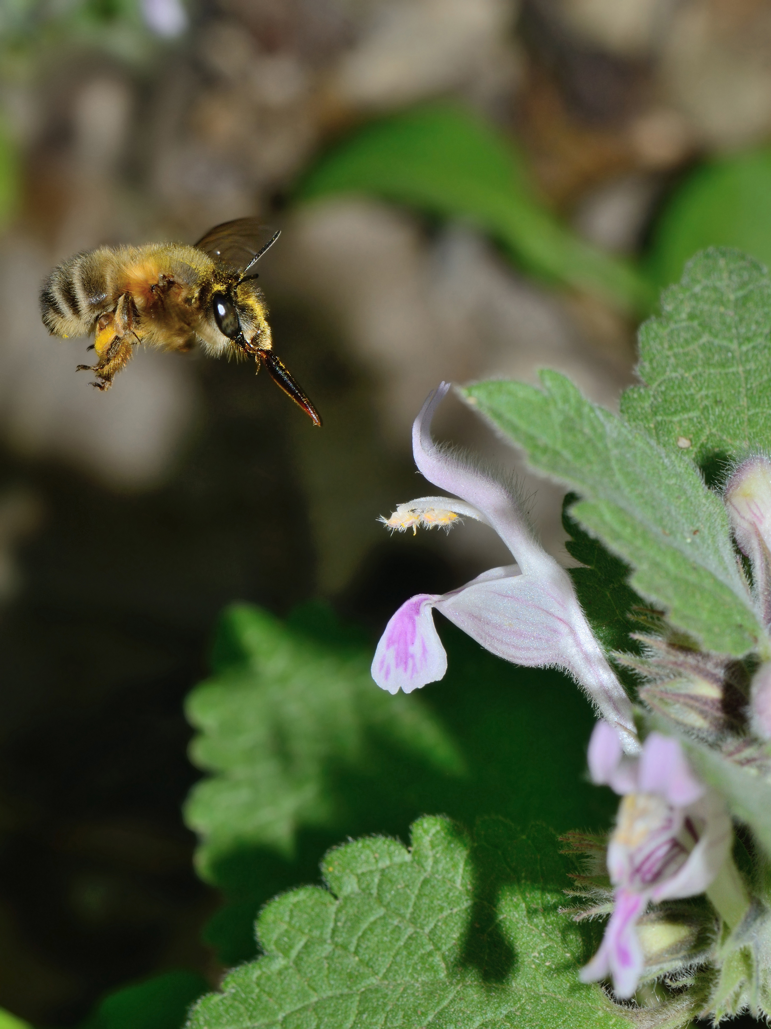 Anthophora sp., female approaching a Lamium garganicum flower, Mount Meron, Israel, April 20, 2012.